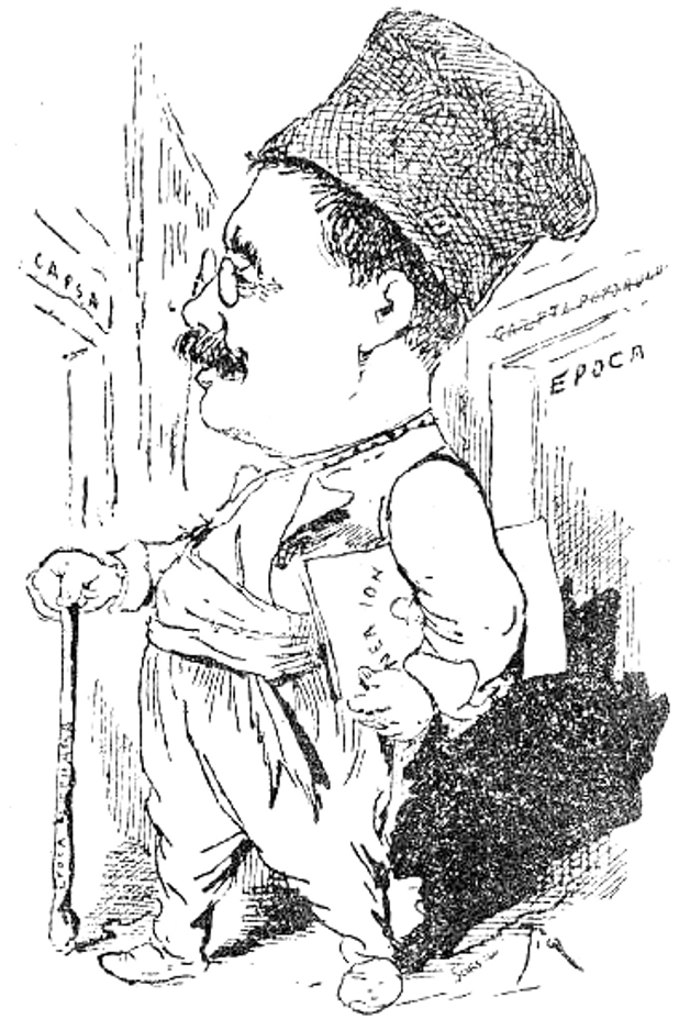 Caricature of the Romanian writer Ion Luca Caragiale